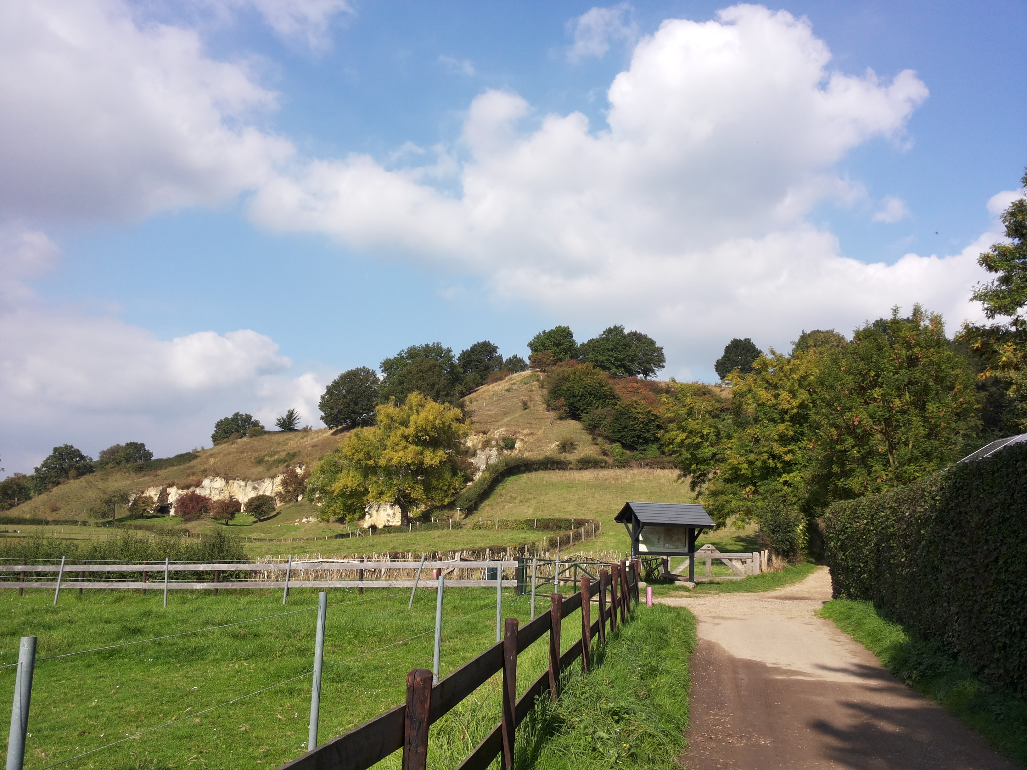 Bemelerberg, Bemelen, Limburg, Netherlands